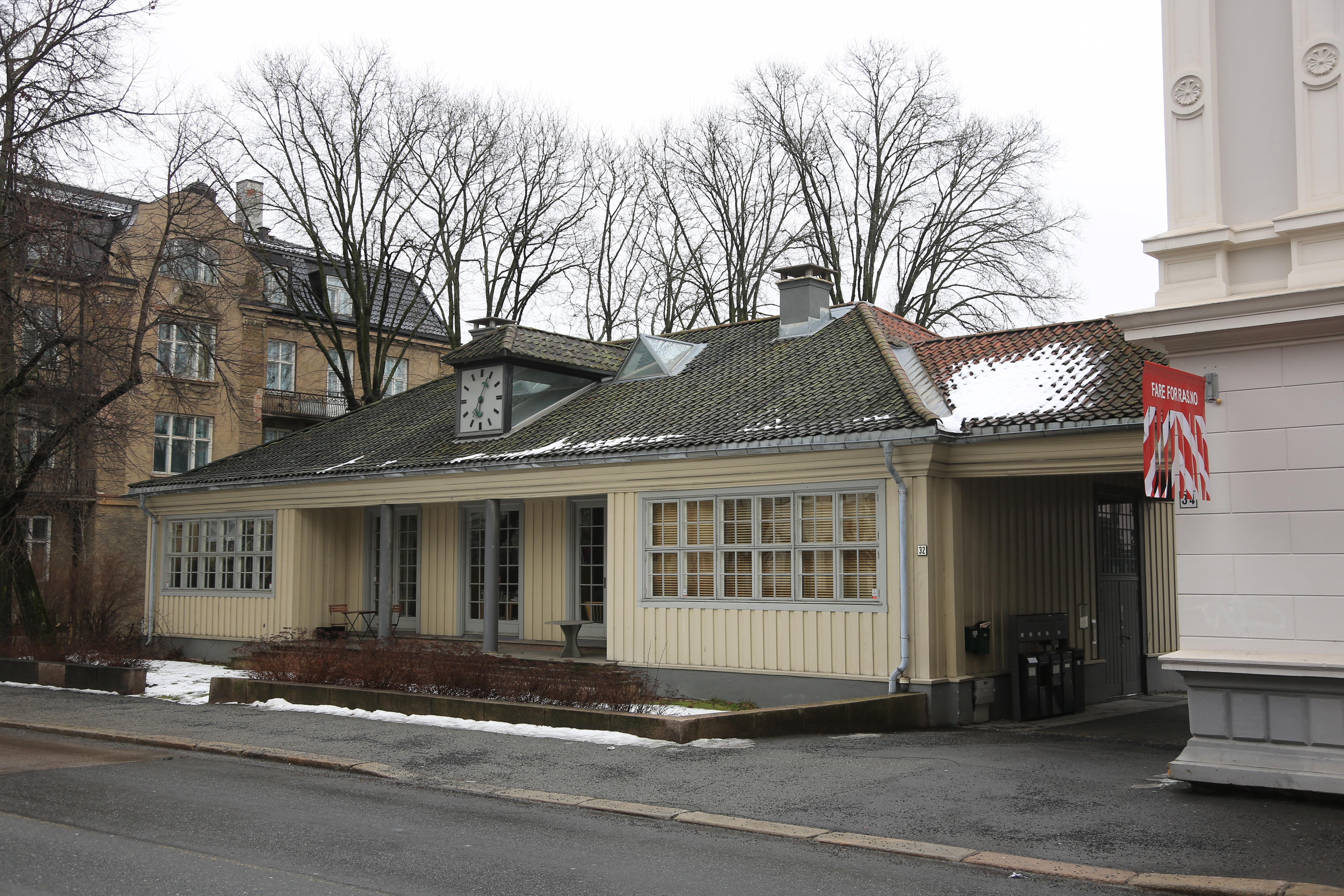 Arkitektenes hus in Oslo. Side building from WWII.